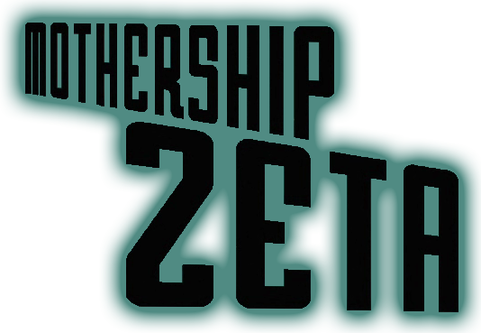 Simple Logo